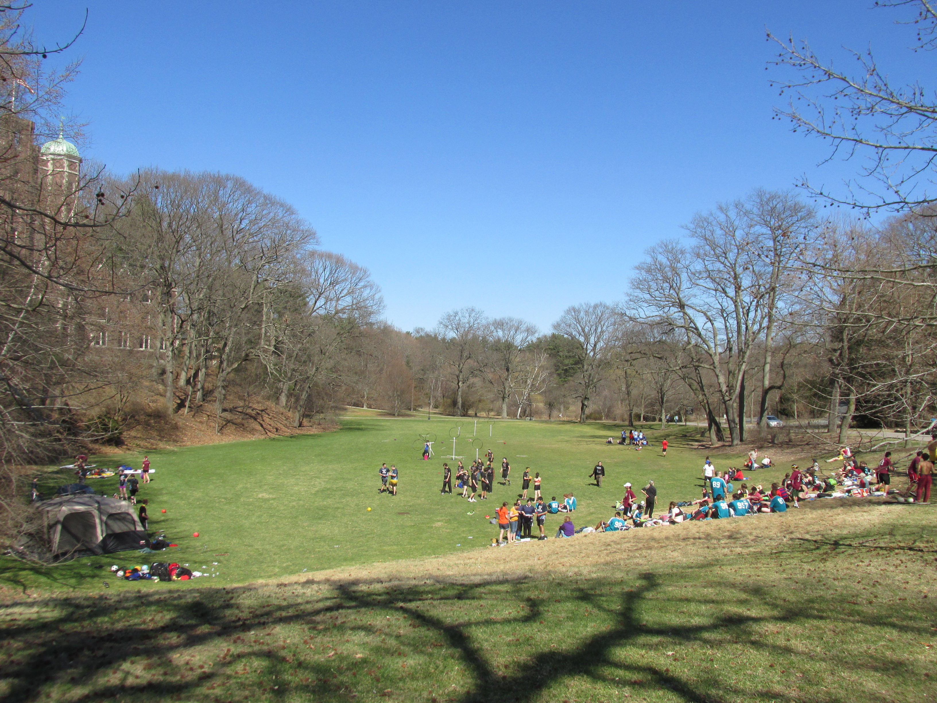 Setting up for Quidditch, Wellesley College, Wellesley Massachusetts